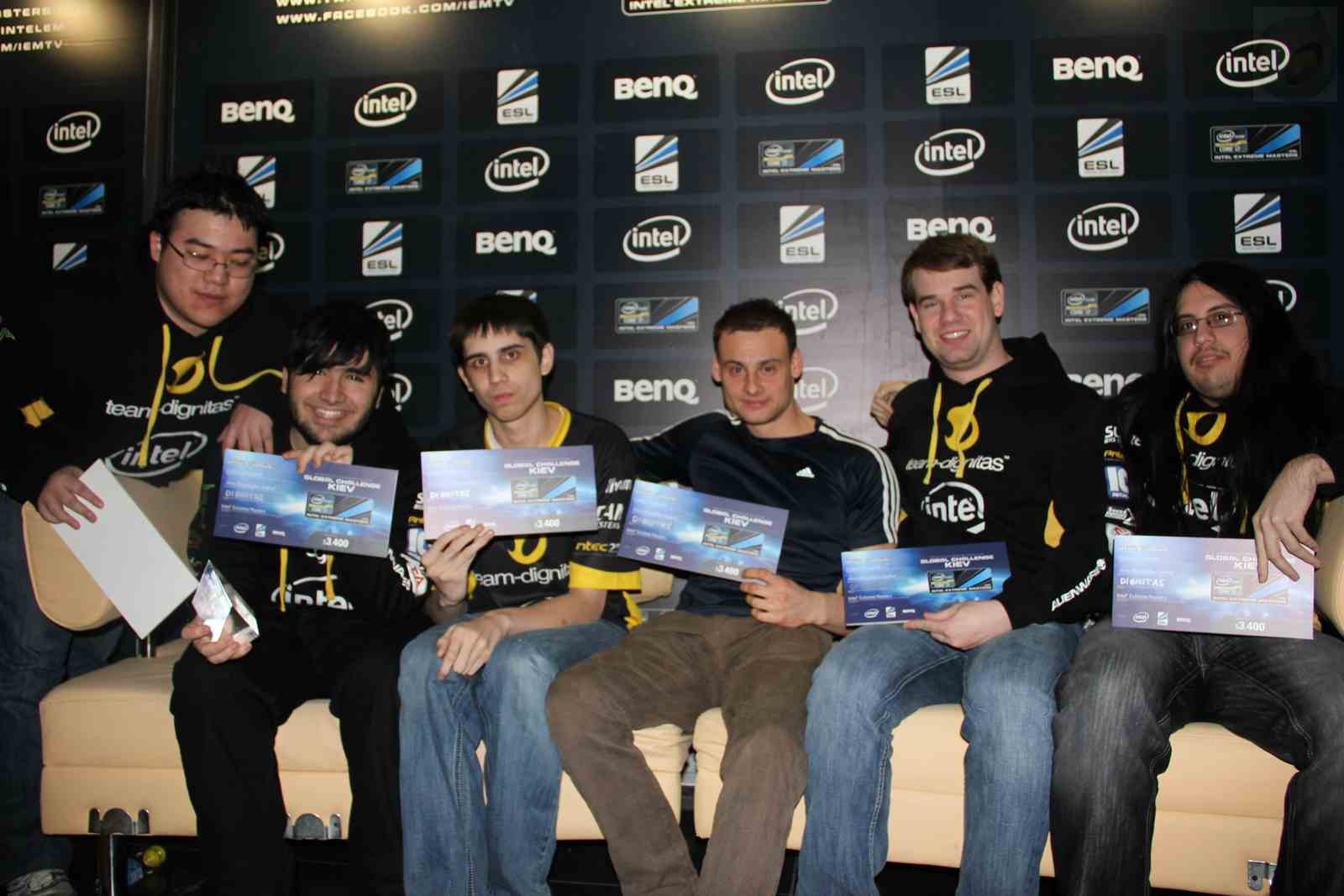 Team Dignitas (League of Legends division) at the Intel Extreme Masters Kiev